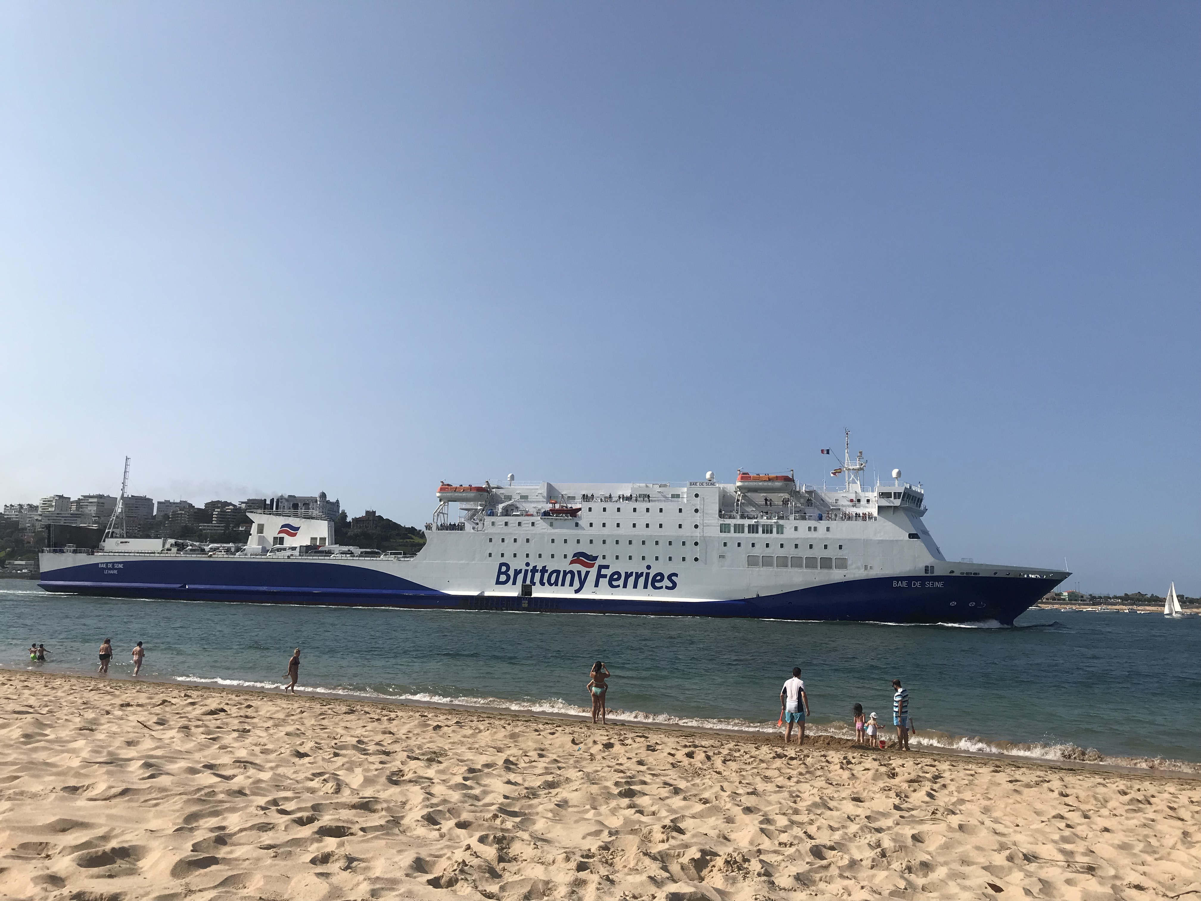 The ship "Baie de Seine" of the Brittany Ferries shipping company leaving the Bay of Santander (Cantabria, Spain). Photograph taken from the beach of El Puntal.